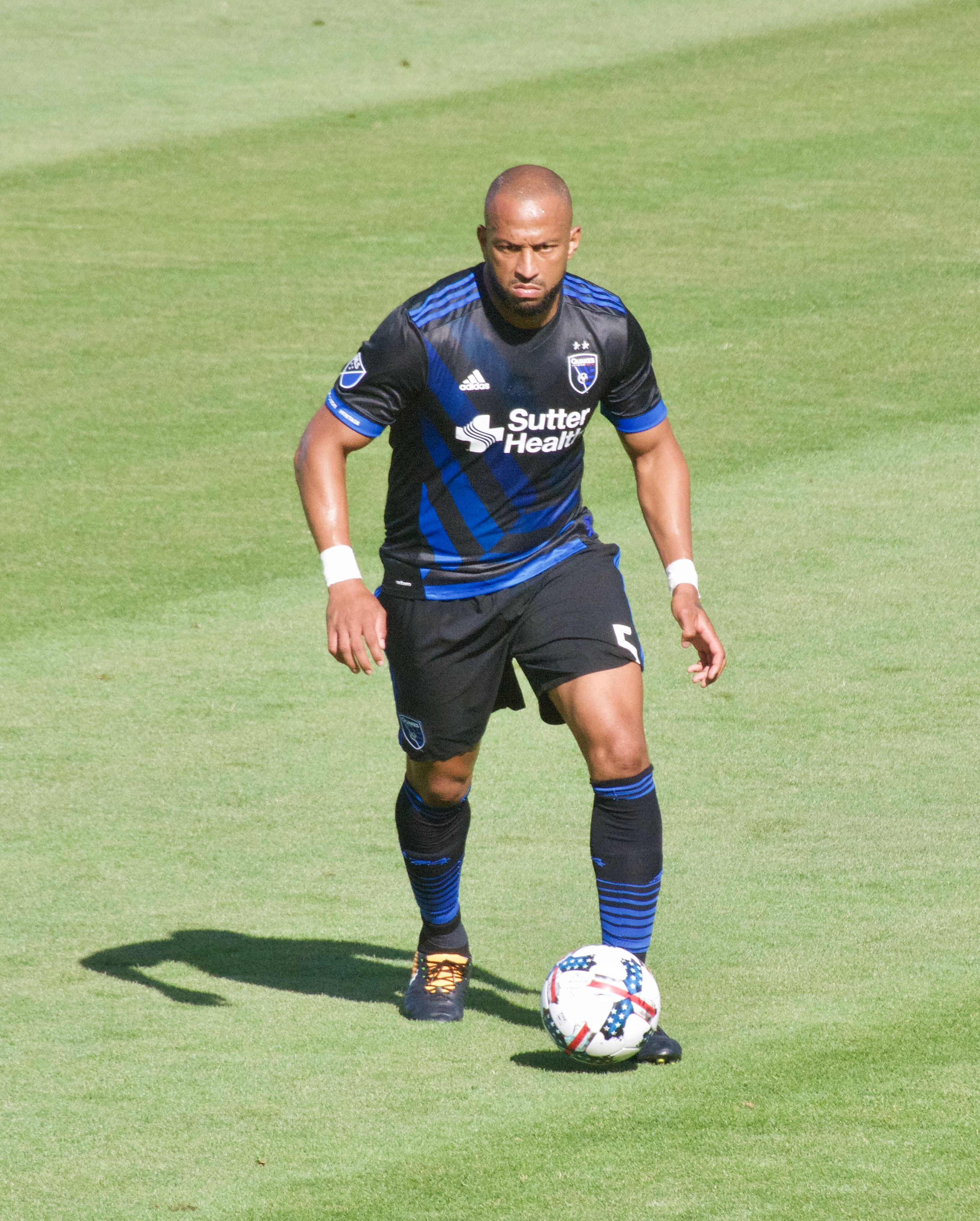 Víctor Bernárdez playing for San Jose Earthquakes, scowls while dribbling, Avaya Stadium, 29 July 2017